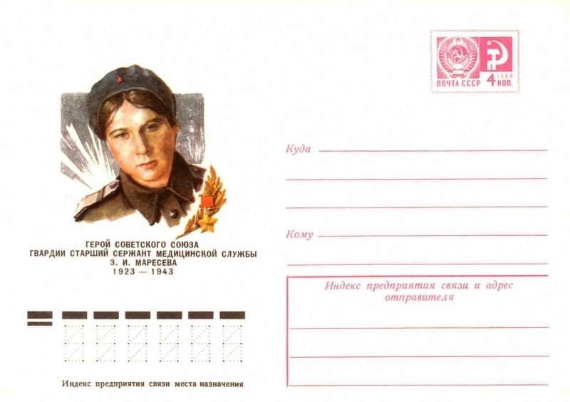 Illustrated stamped envelope with definitive stamp of the Soviet Union of 1977 featuring Hero of the Soviet Union Zinaida Mareseva.